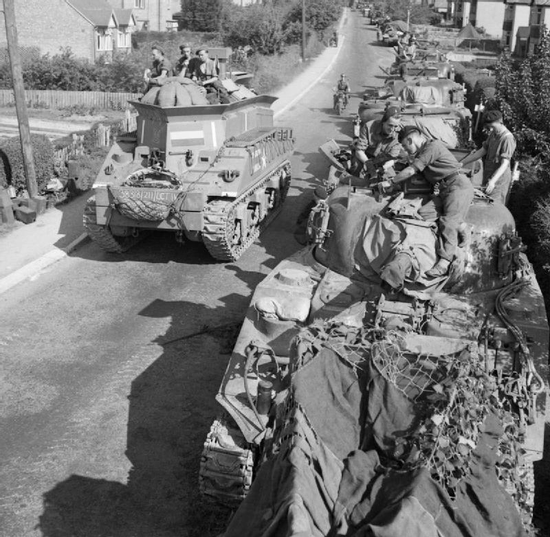 IWM caption : A Sherman BARV and Sherman tanks of 13th/18th Royal Hussars during the regiment's move from Petworth to Gosport.